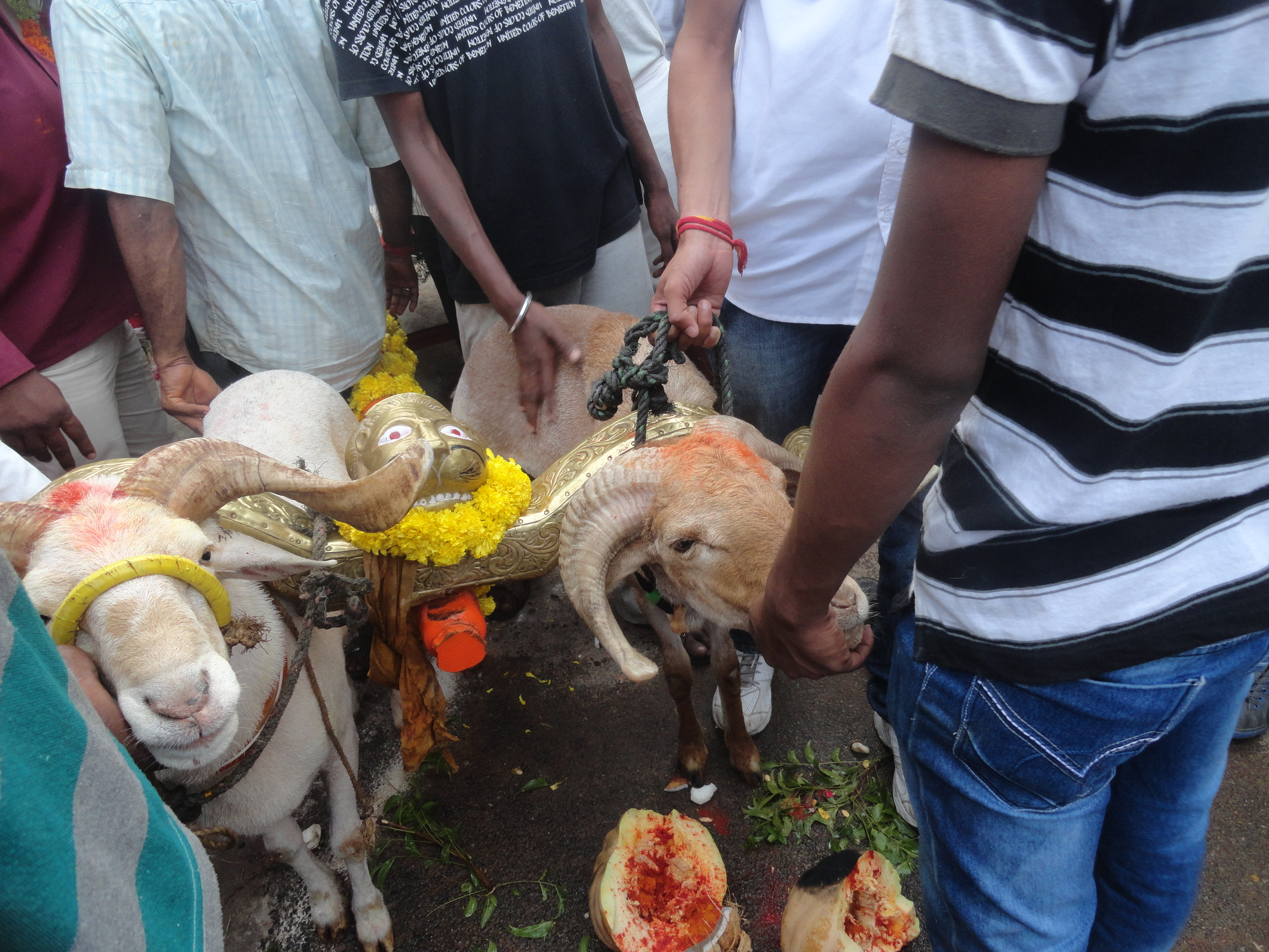 Ram's cart wherein goddess is seated